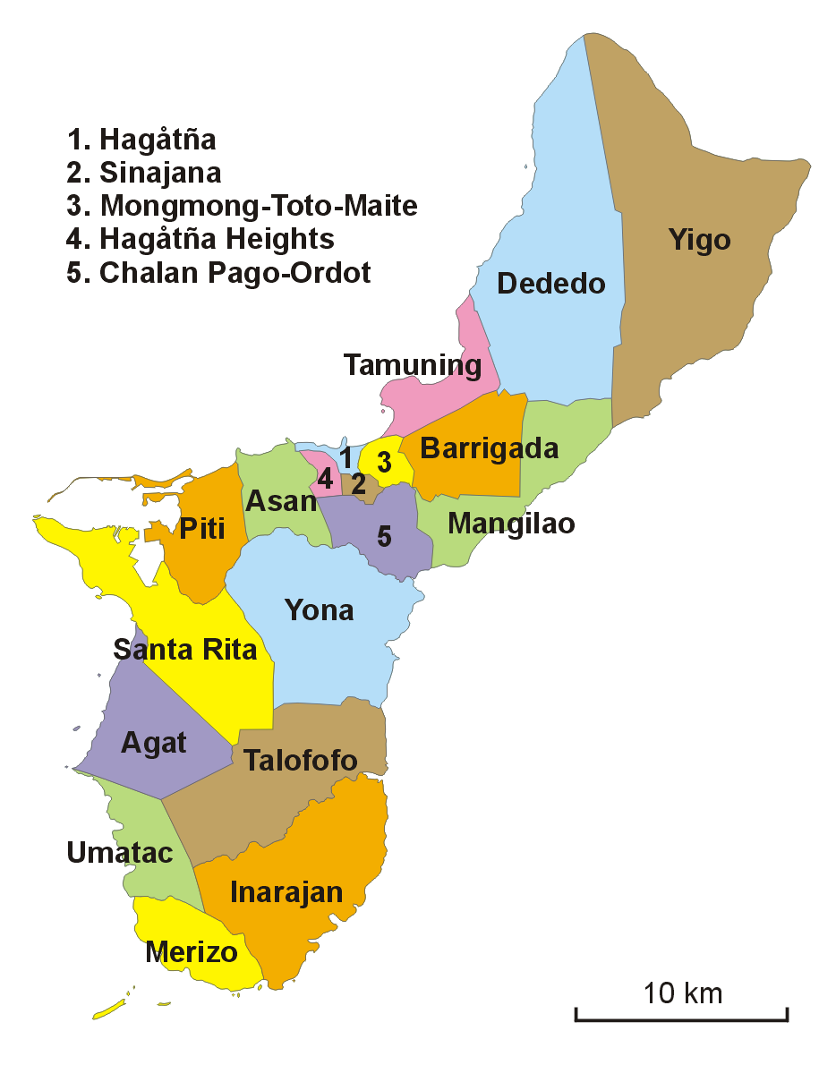 Municipalities of Guam, 2006.